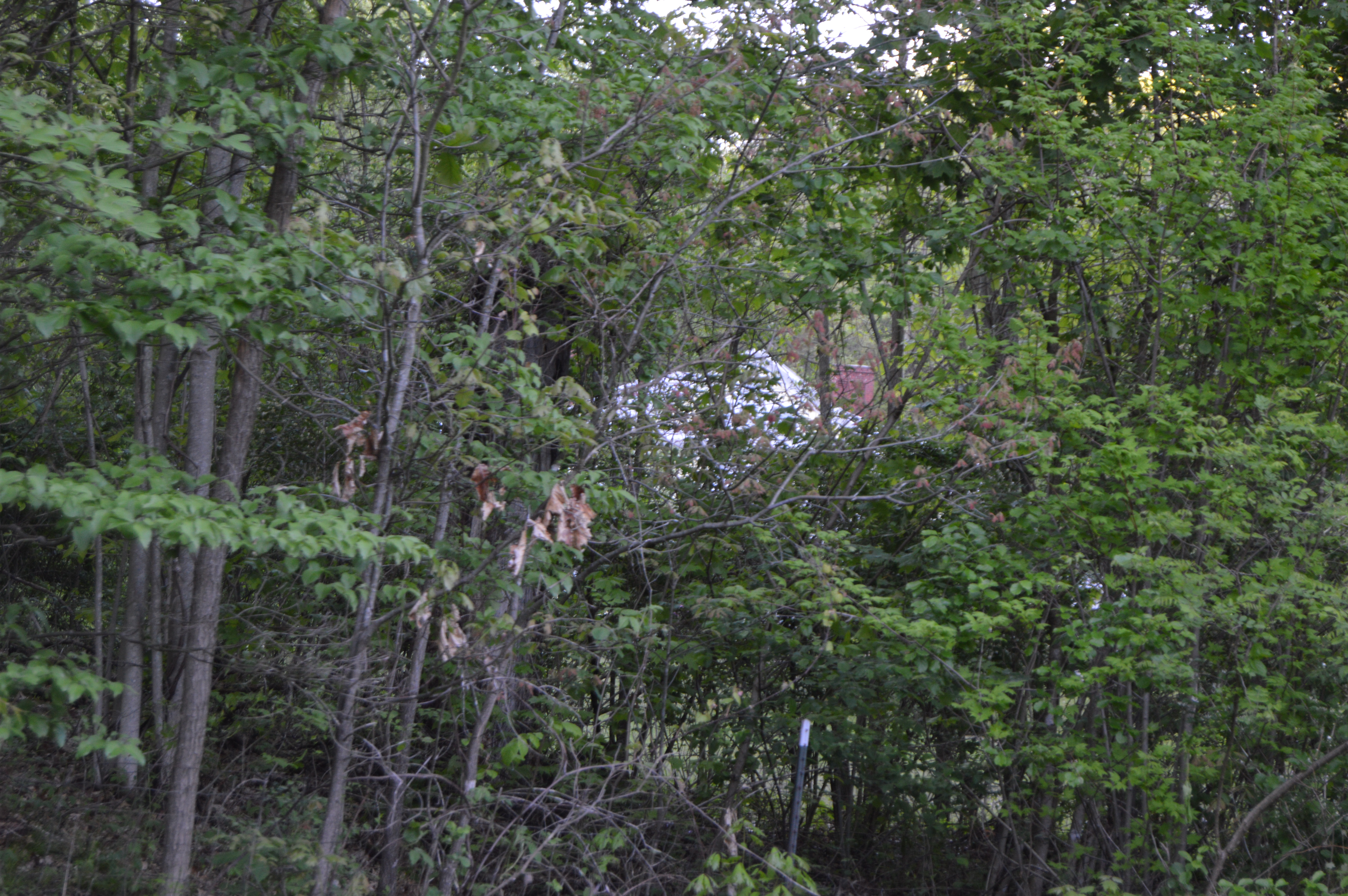 Through-the-trees view of the Hancock House, located off Sussex Street in Bluefield, West Virginia, United States. Built in 1907, it is listed on the National Register of Historic Places.